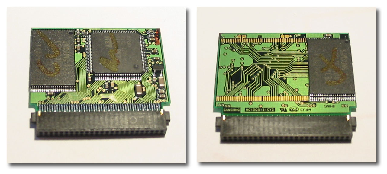 CF Flash Card from the inside